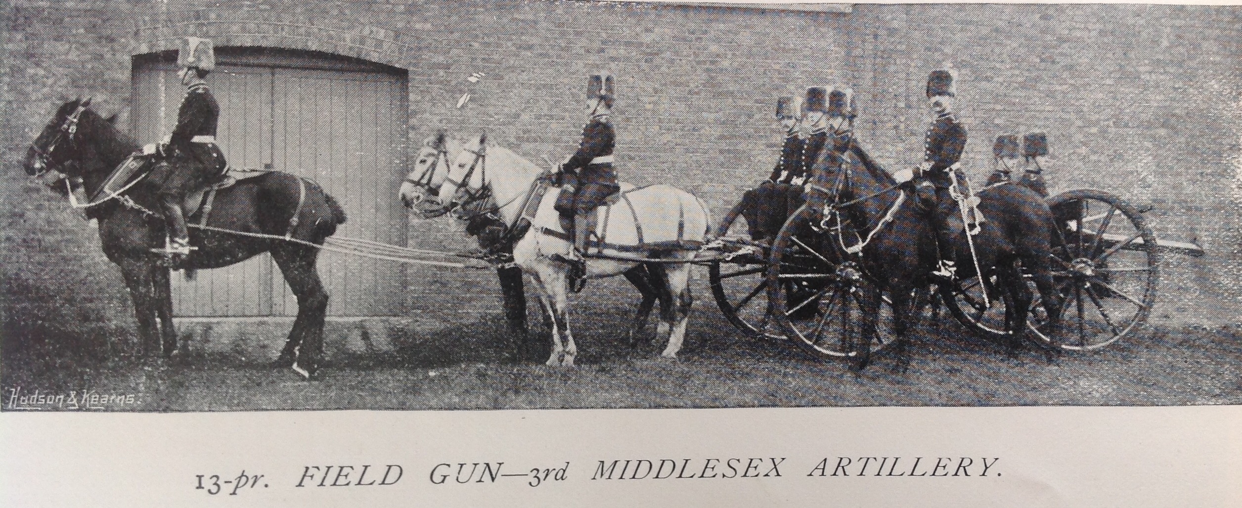 13 Pounder RML gun of the 3rd Middlesex Artillery Volunteers. Pictured in the Navy and Army Illustrated published on 9 April1896